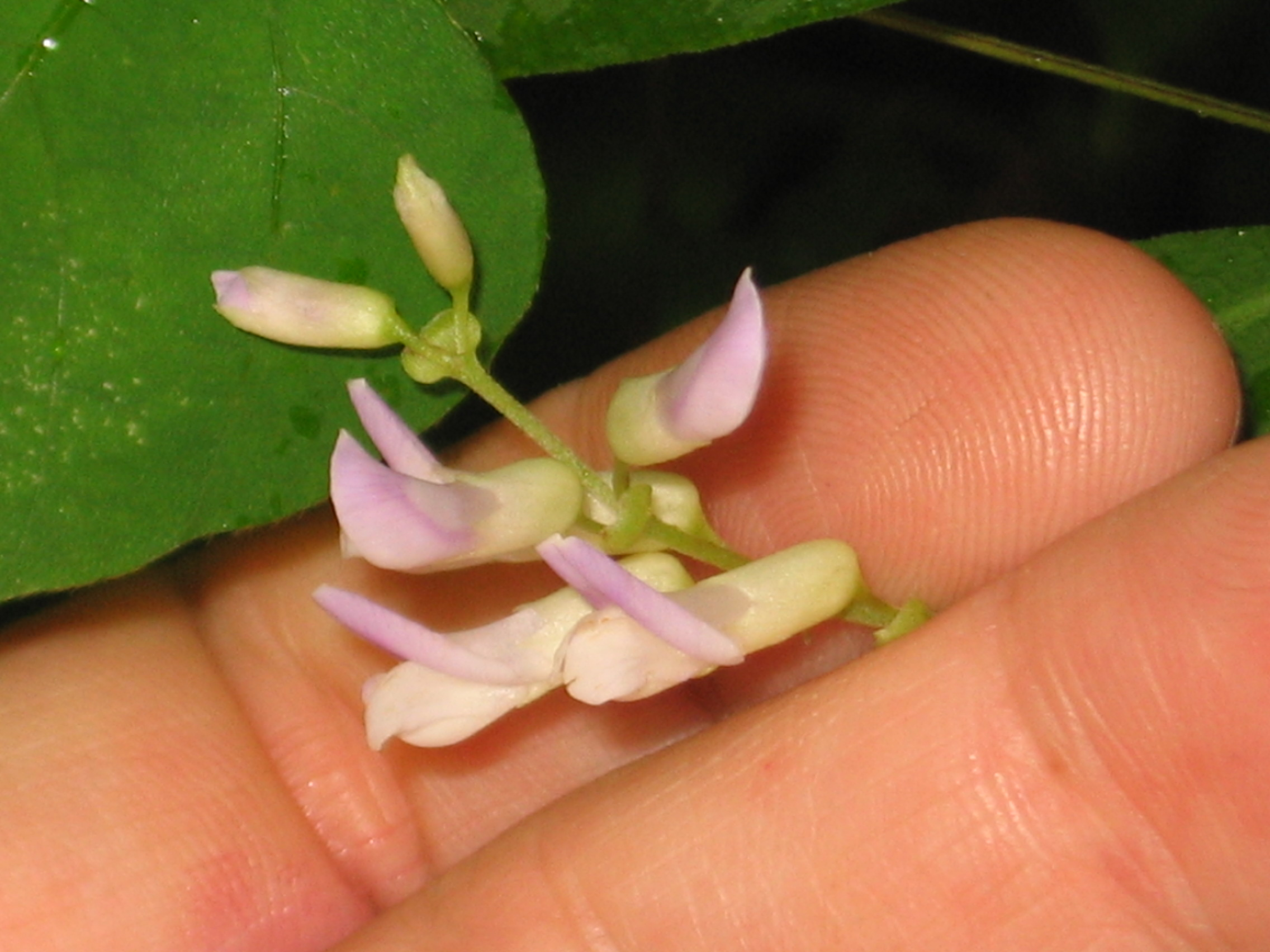 Amphicarpaea bracteata (American hogpeanut) inflorescence.